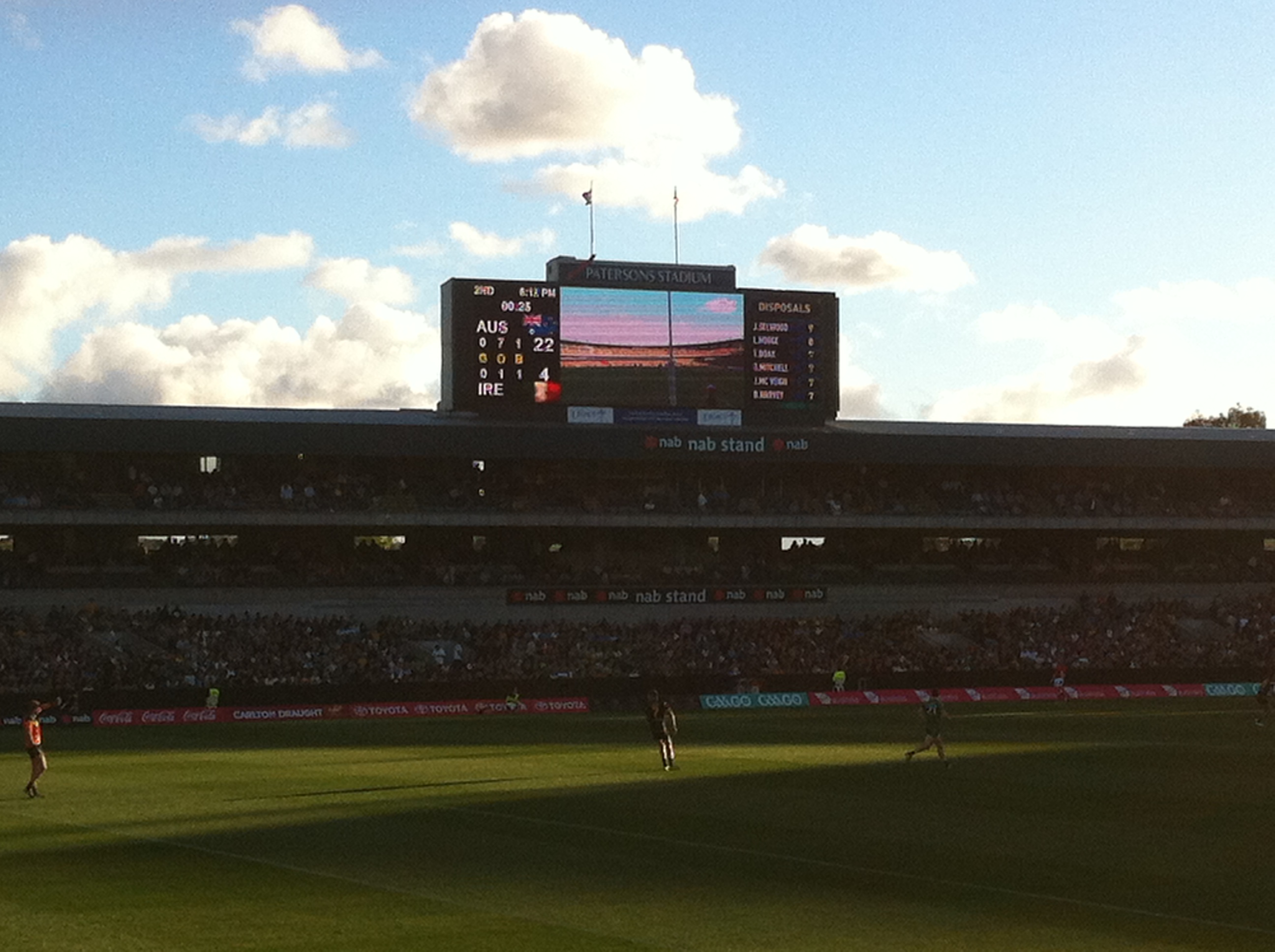 Australia vs Ireland International rules Game Nov 22 2014 Paterson Stadium Scoreboard at Quarter time